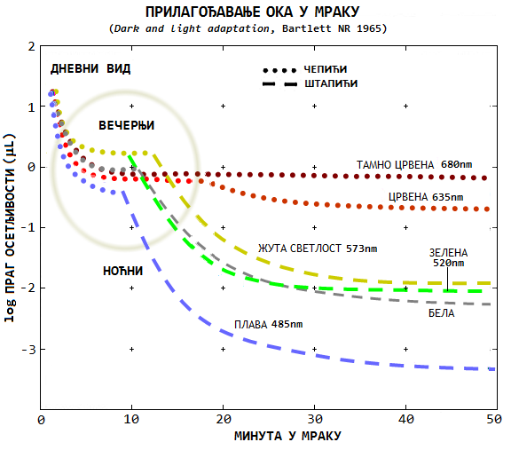 ПРИЛАГОЂАВАЊЕ ВИДА У МРАКУ